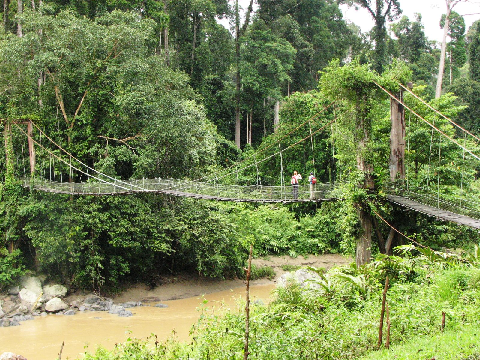 Footbridge over Sungai Palum Tambun to the rainforest — in the Danum Valley Conservation Area on Borneo, Sabah, Malaysia.